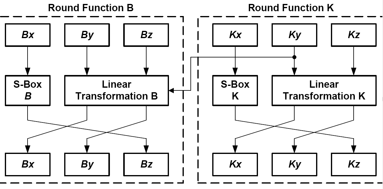 The picture describes round functions used in Block Module layer of hdcp cipher